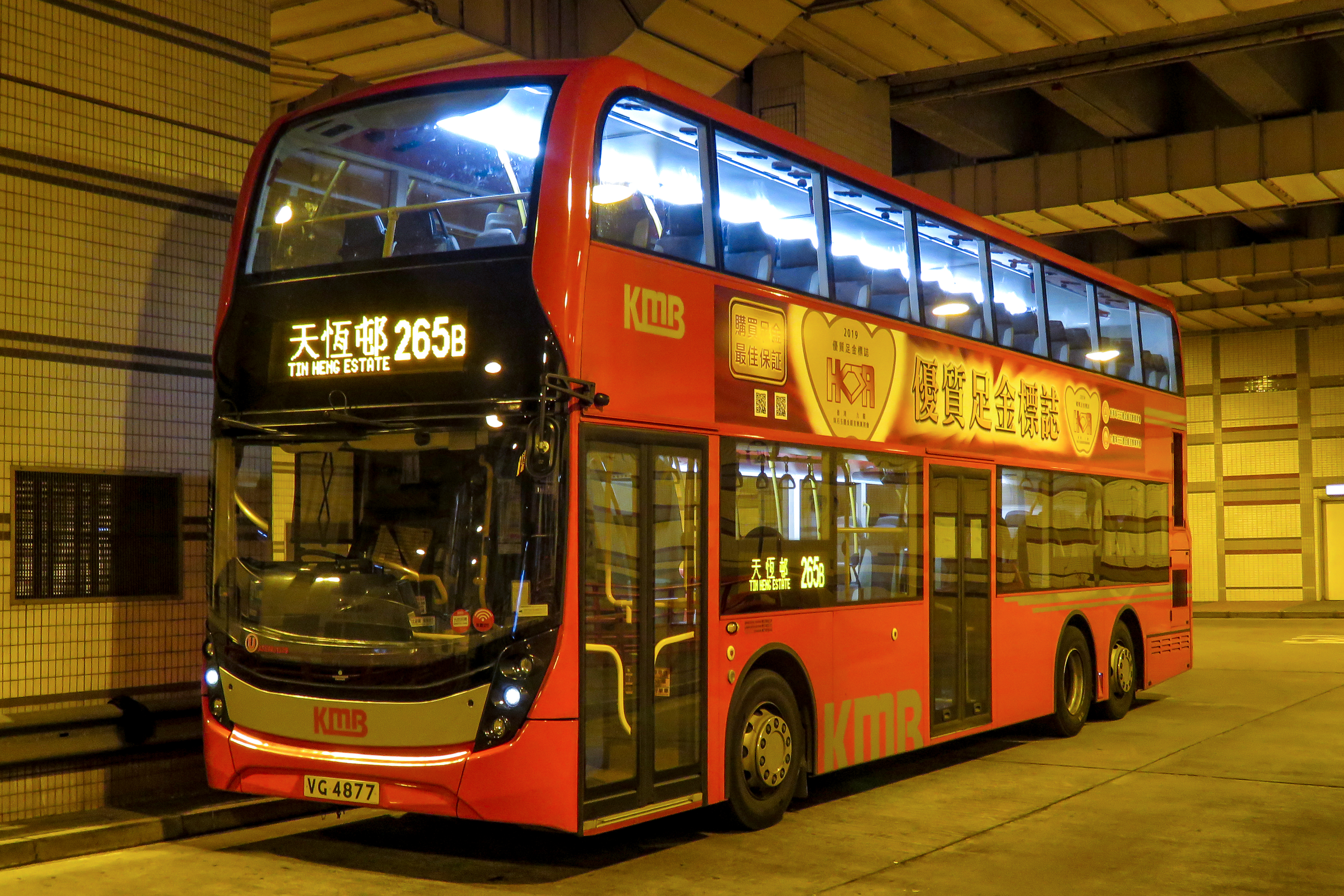 Not so convenient to head for the south.